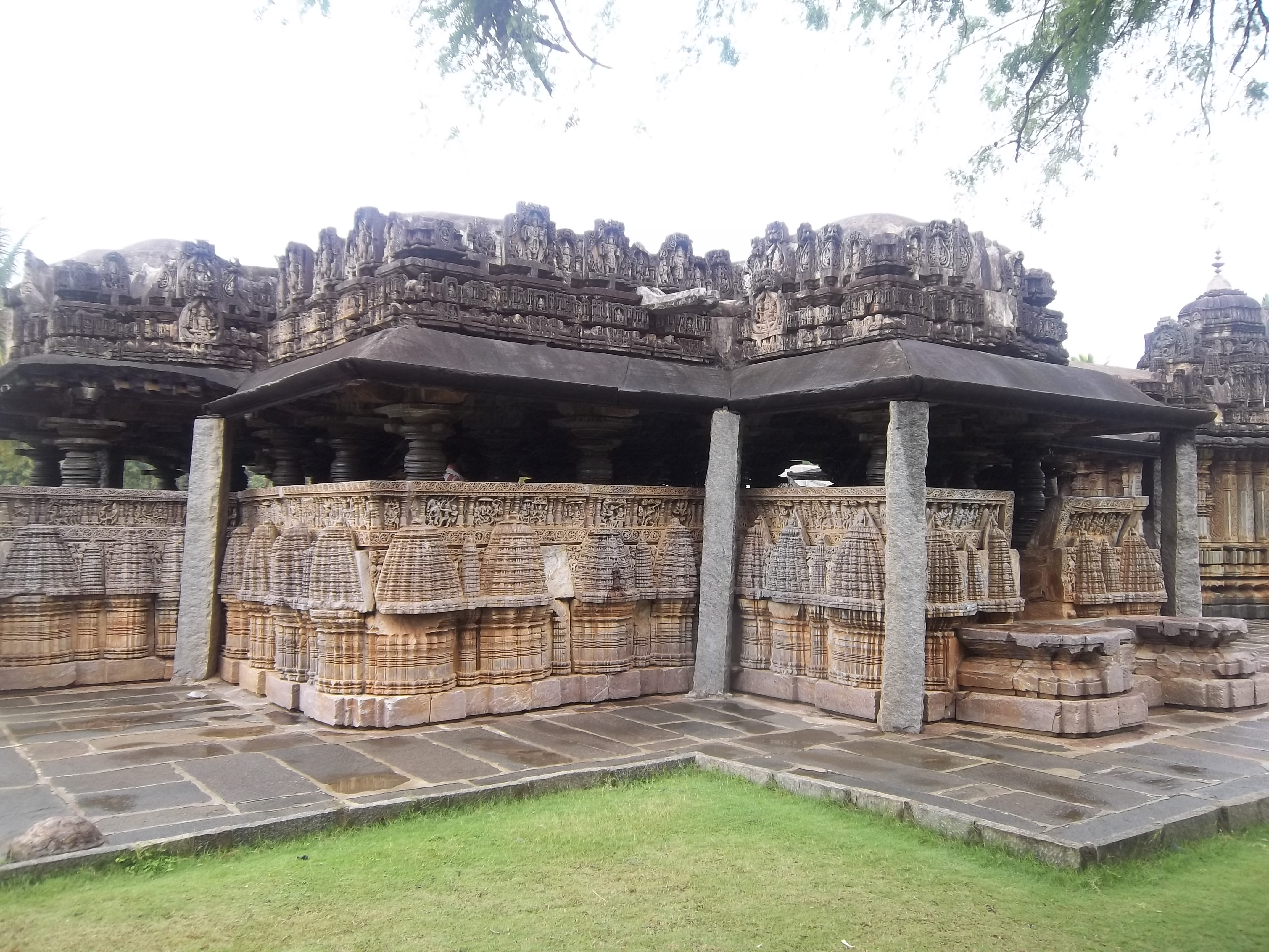 the circumambulation path around the temple.